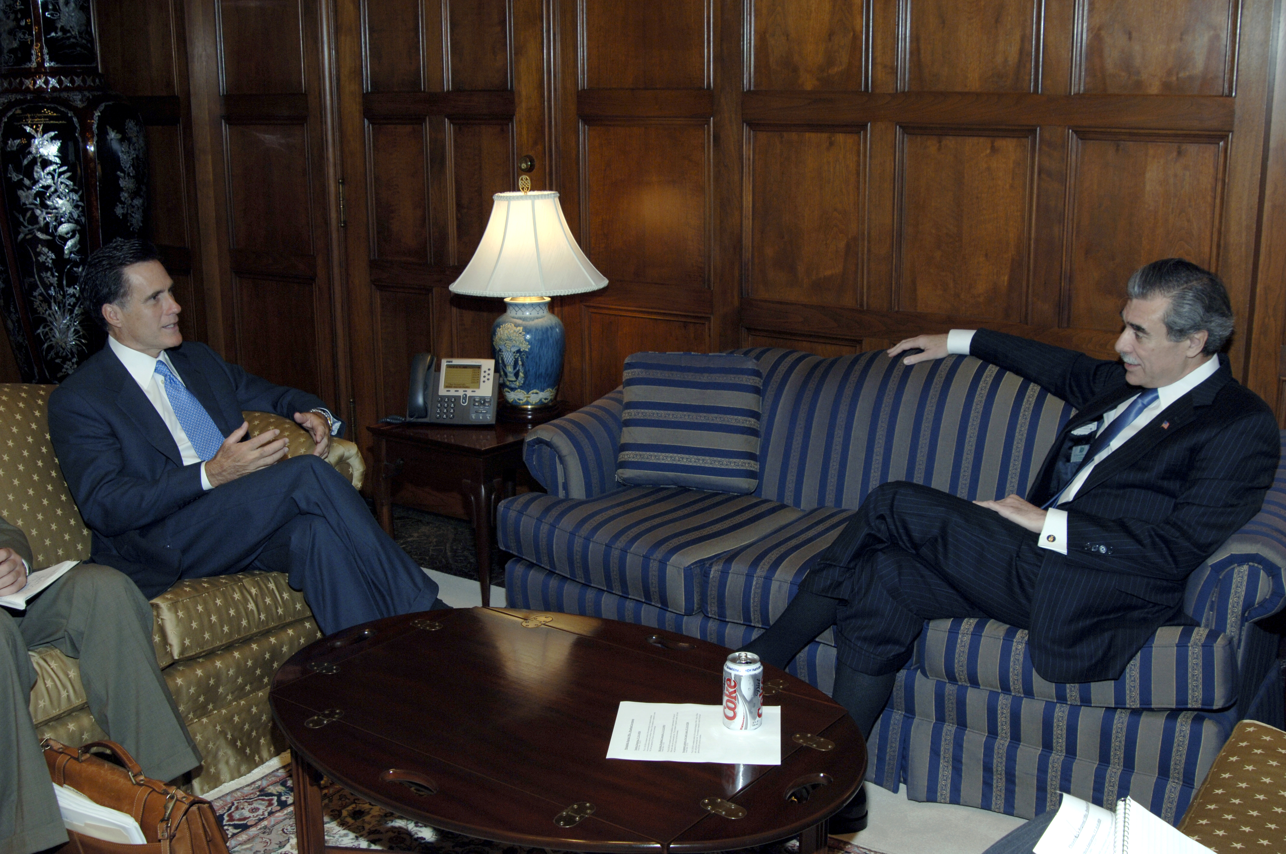 [Assignment: OS_2006_1201_11] Office of the Secretary (Carlos Gutierrez) - Secretary with Governor Mitt Romney [40_CFD_OS_2006_1201_11__DSC1955.JPG], 10/6/2005